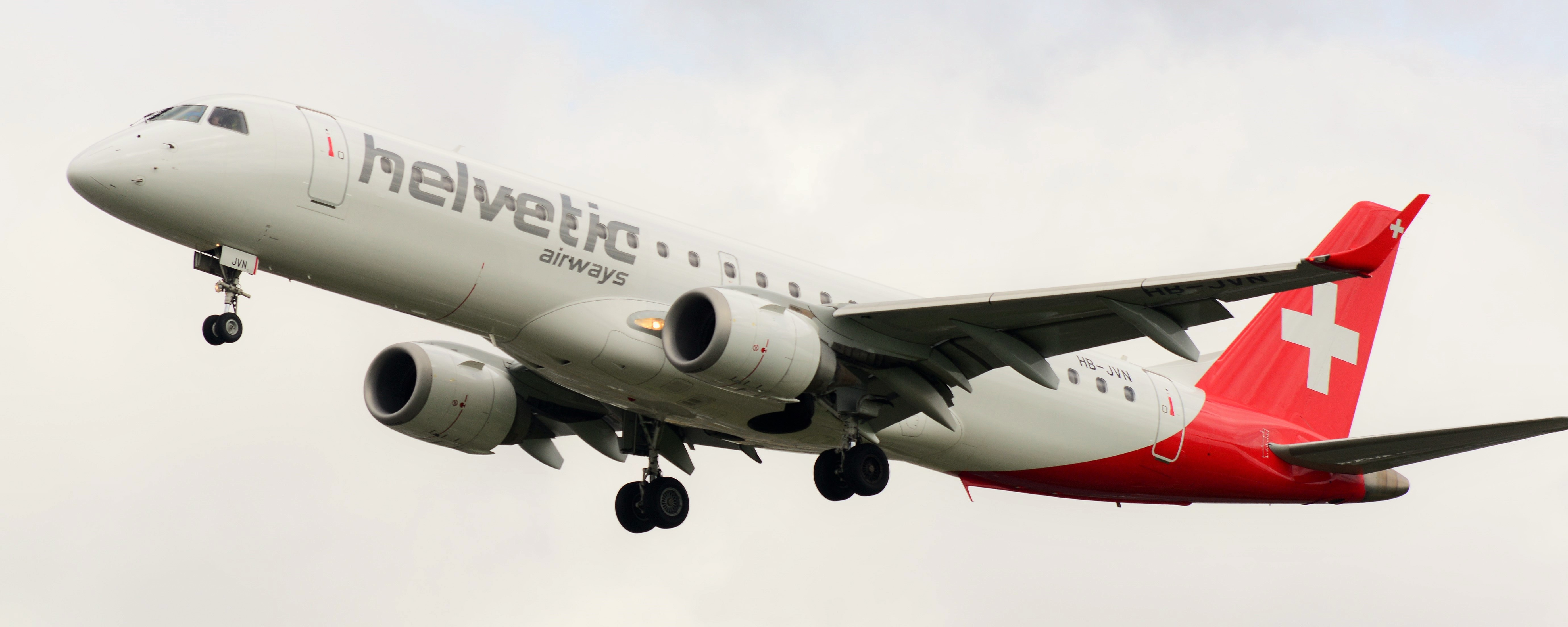 Helvetic Airways, HB-JVN Embraer ERJ-190